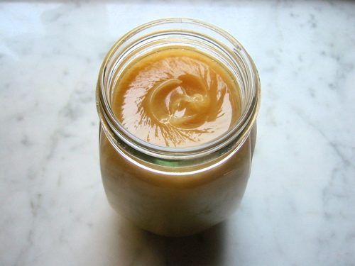 A jar of honey